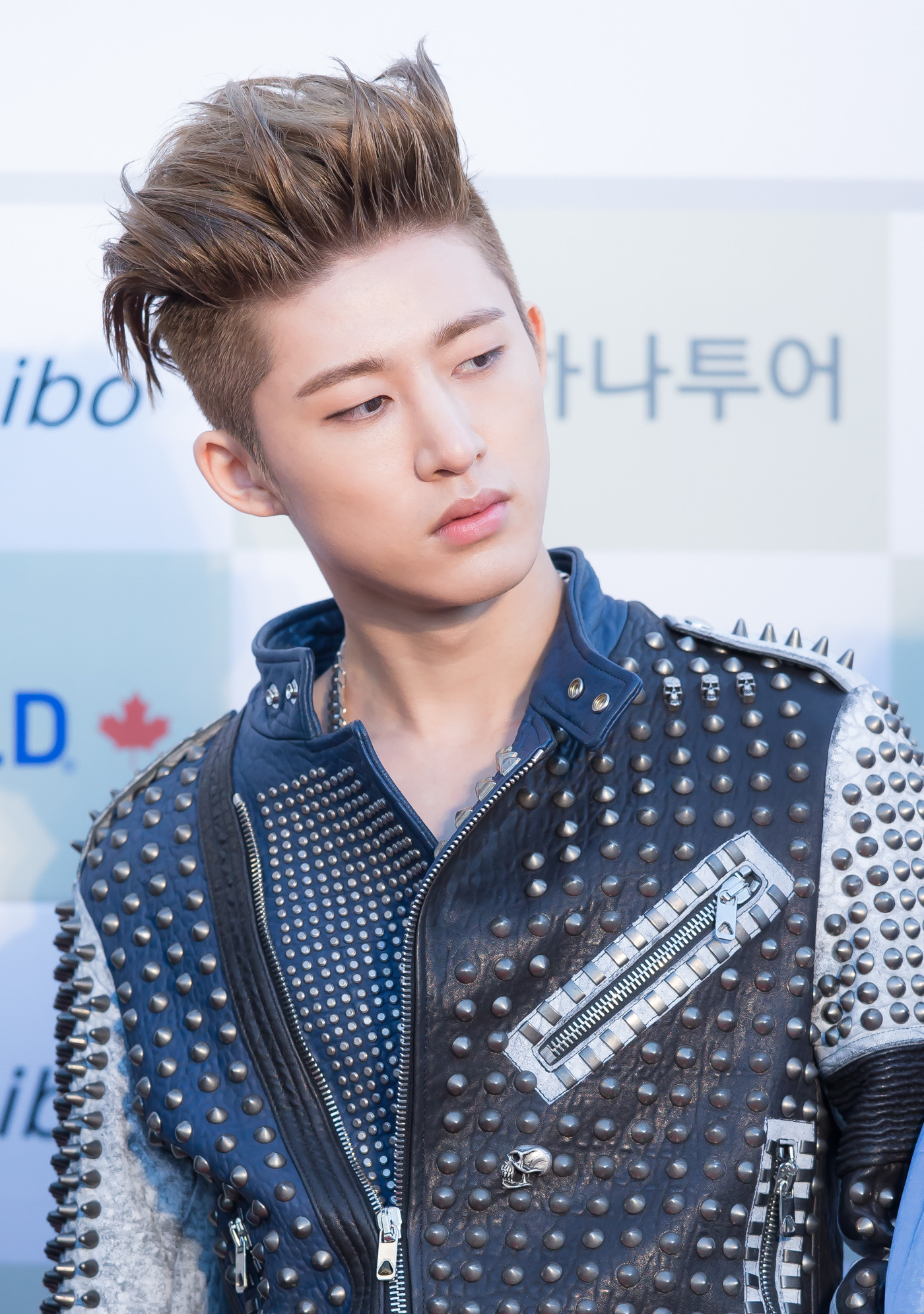 iKON's B.I on the 2016 Gaon Chart K-pop Awards red carpet.